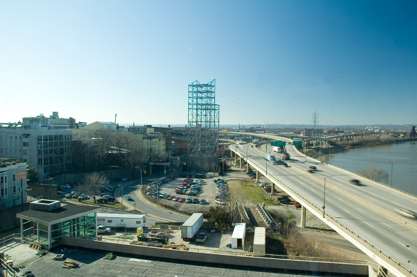 The future Museum Plaza site in downtown Louisville, Kentucky.